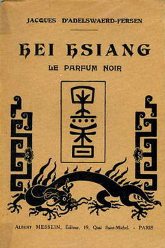 Cover of the book by Fersen: Hei Hsiang, 1921